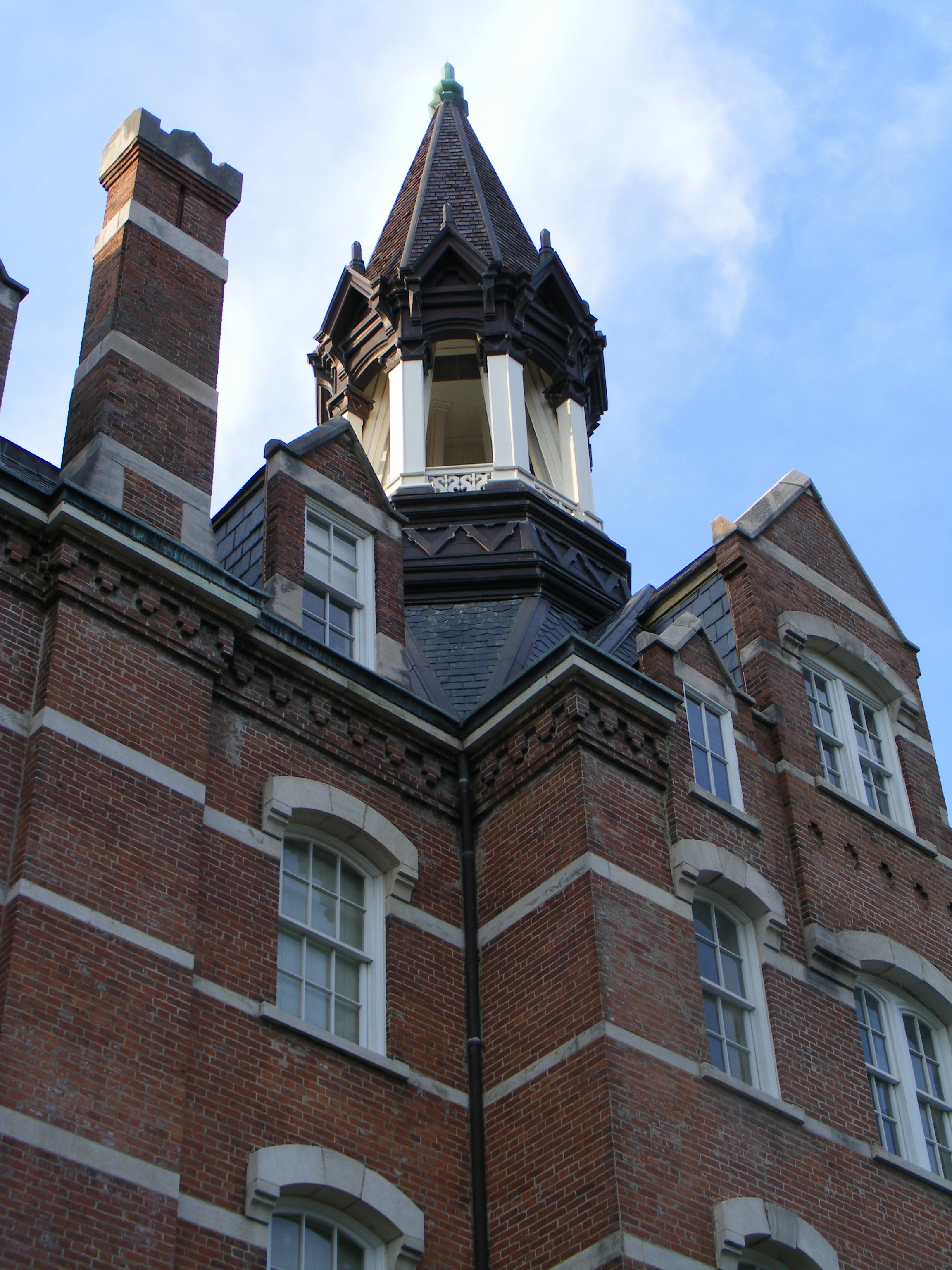 Fisk University in Nashville, Tennessee.